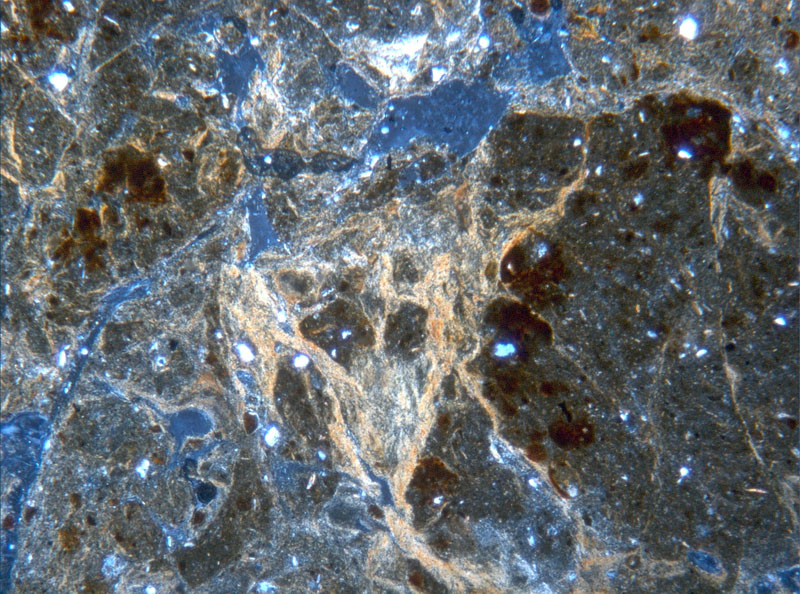 Microphotography of a vertisol (Circular Polarised light), frame width 1.7 cm.